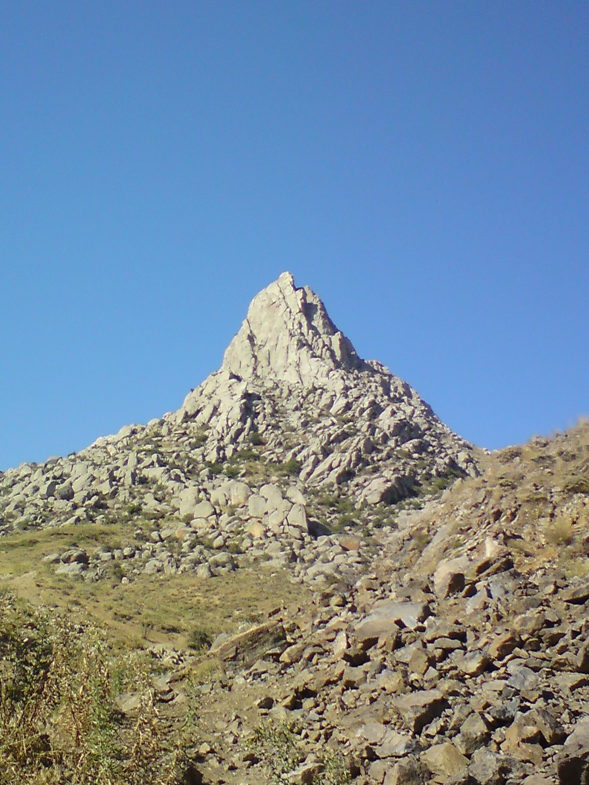 Sheyvar (Şeyvər) mountain